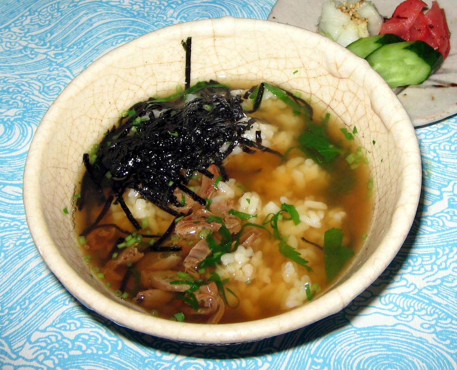 Shigure chazuke of clam (Meretrix lusoria) in Kuwana, Mie, Japan